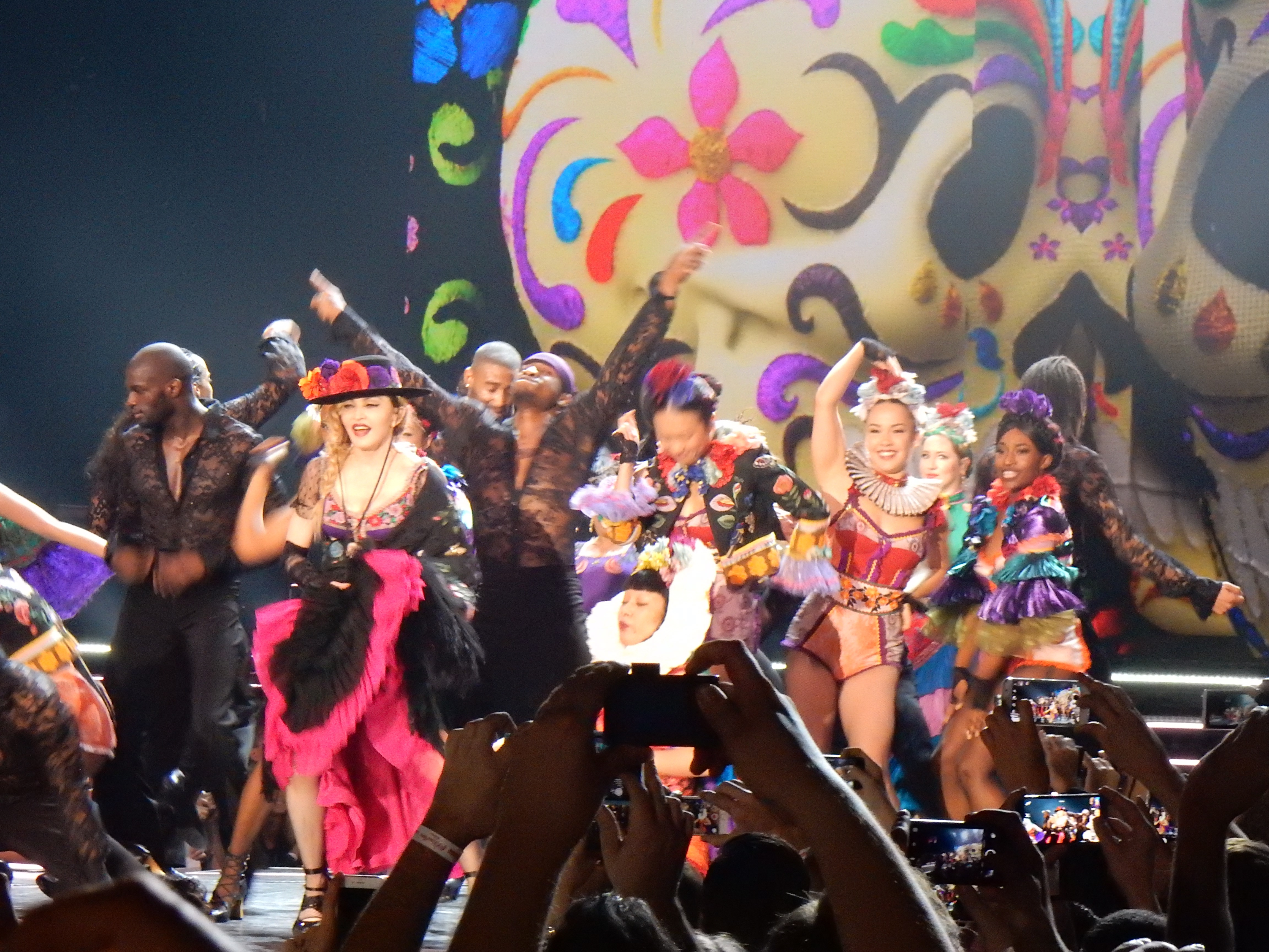 Madonna - Rebel Heart Toru 2015 - Prague 1